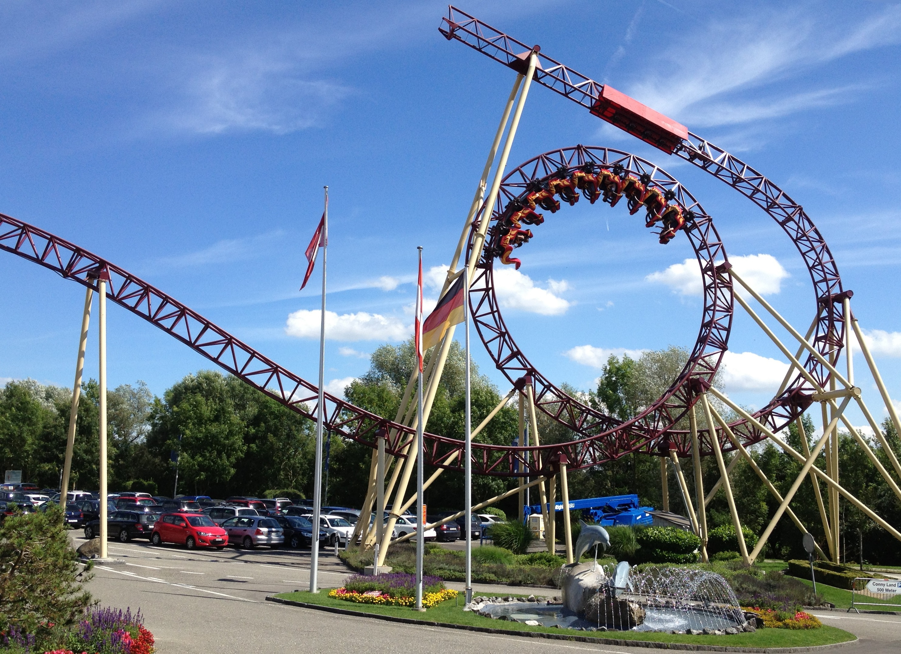 Cobra at Conny-Land, Switzerland.